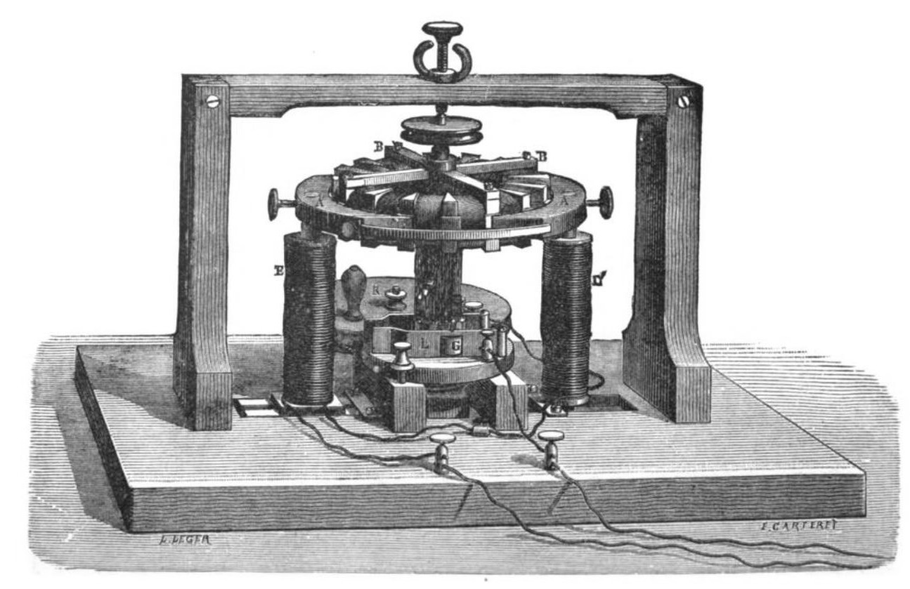 Drawing of Antonio Pacinotti's dynamo, an early electrical generator invented by Italian professor Antonio Pacinotti about 1860. It was first to use a doughnut shaped armature with many windings (16 in this machine) distributed evenly along it's circumference to even out the output waveform, producing almost steady direct current. It was the inspiration for the Gramme dynamo, the first machine to produce power commercially for industry. This drawing is of a machine presented at the Paris Electrical Exhibition in 1867, from the caption: "Pacinotti machine at the Paris Electrical Exhibition". Alterations: removed caption and discoloration along bottom edge.